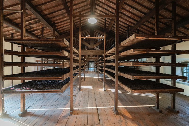 Amarone grapes drying racks at Tenuta Santa Maria by Gaetano Bertani - Negrar Verona Italy